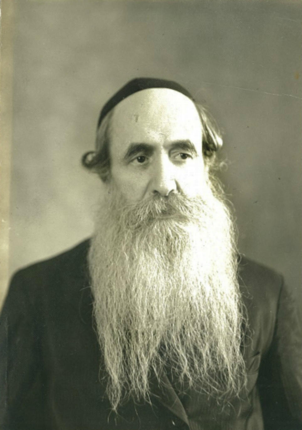 The picture was taken in Elizabeth, New Jersey, in 1940 when Avraham Binyamin Teitz arrived in the United States.